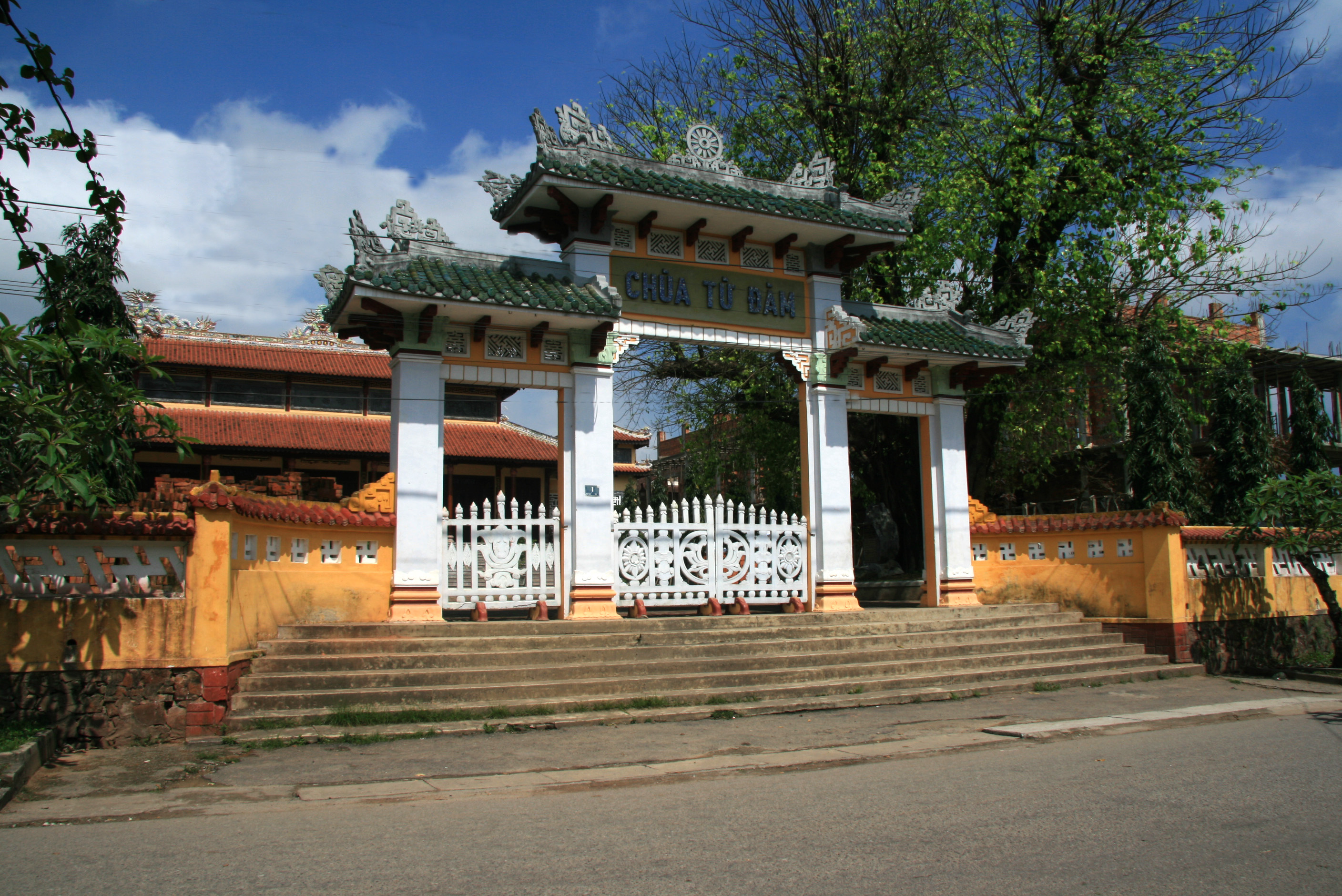 Tu Dam pagoda, Hue, Vietnam